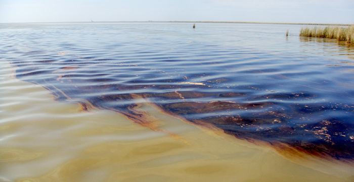 The oil spill, seen here, is being invesigated by the Coast Guard after it was reported in the vicinity of South Pass, La. April 6, 2010. U.S. Coast Guard photo by Petty Officer 1st Class Jesse Kavanaugh.